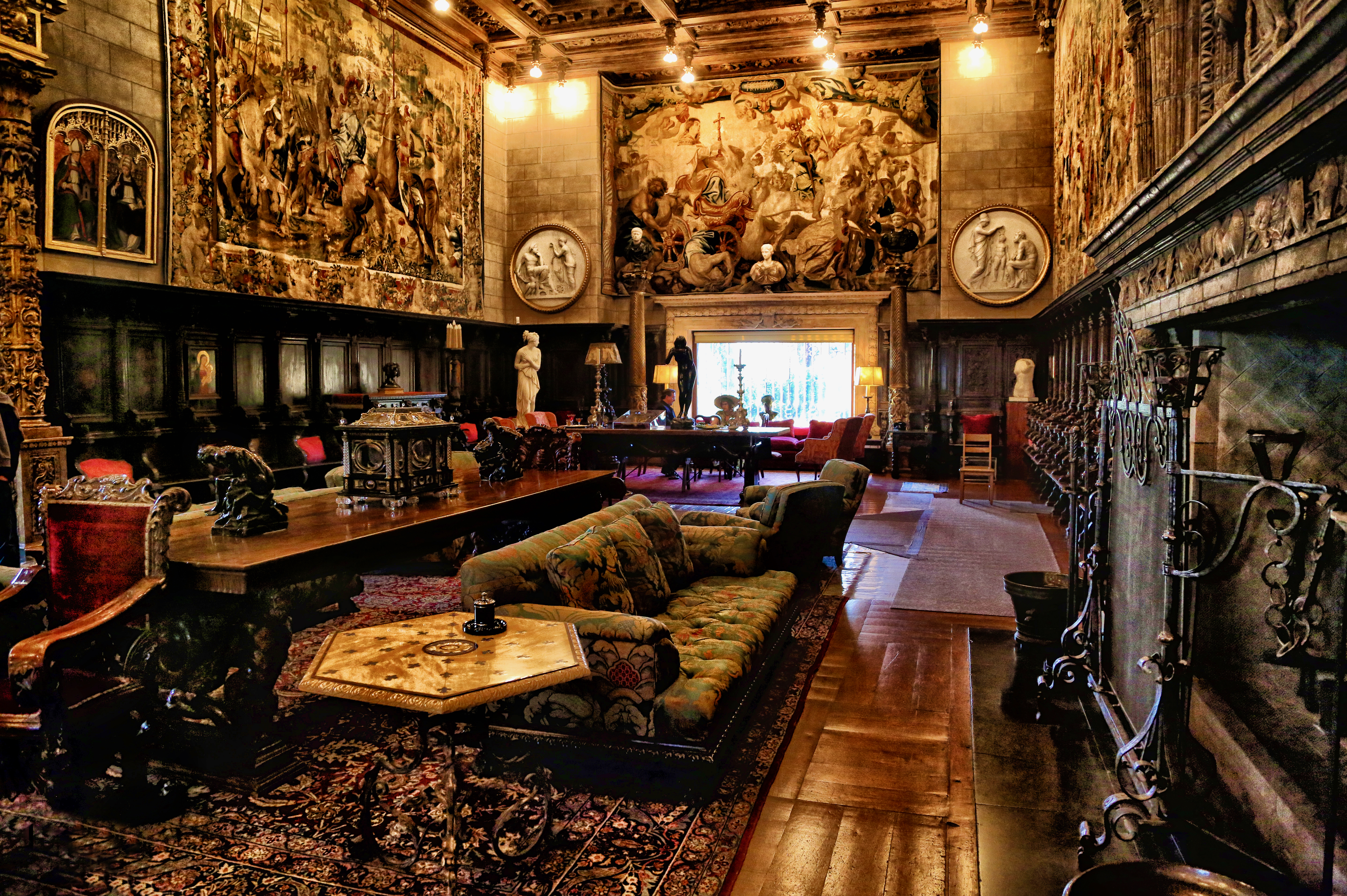 Another room in Hearst Castle